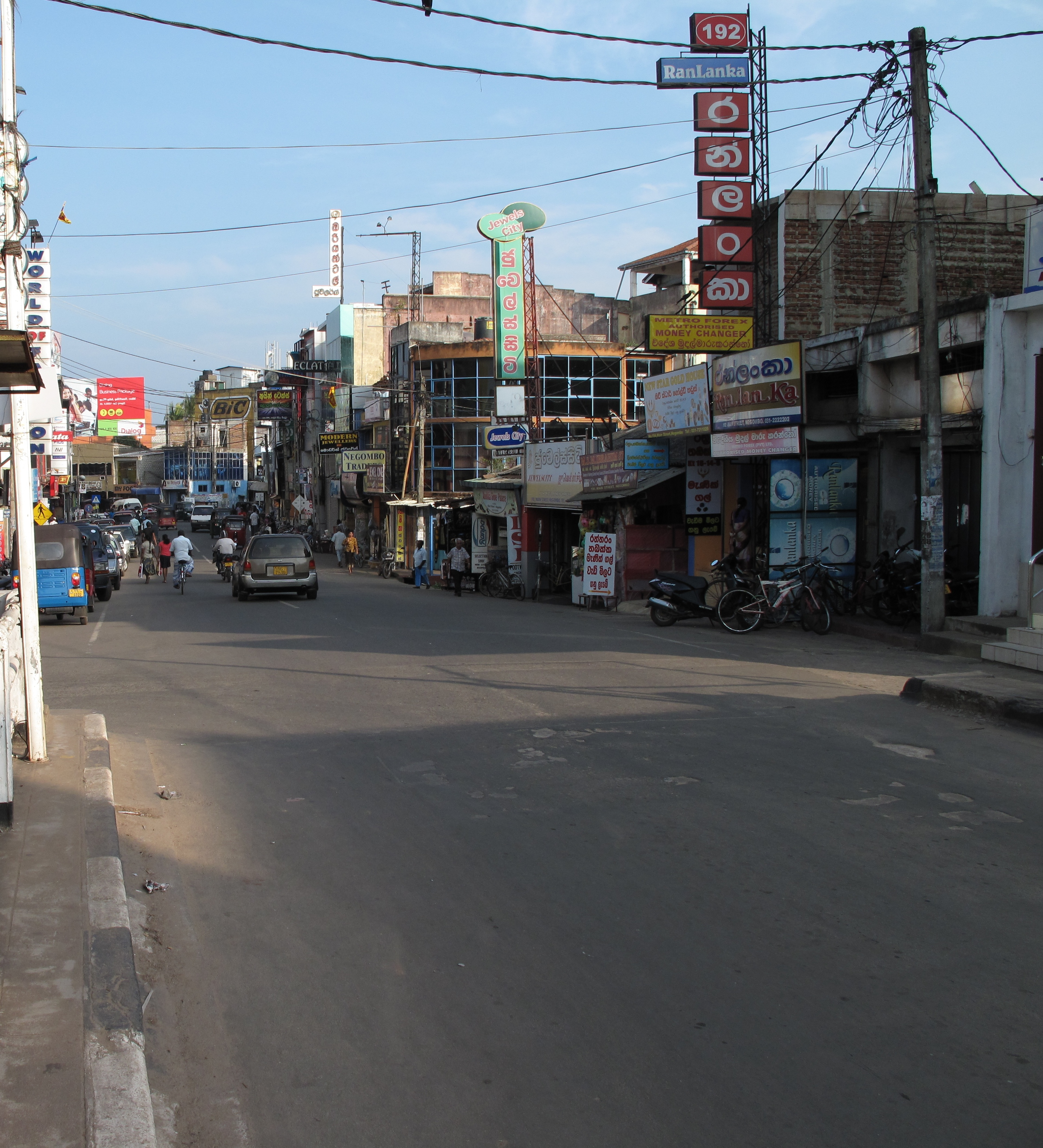 Street in Negombo, Sri Lanka.